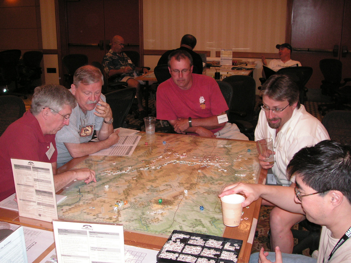 Wargaming at CSW Expo 2009